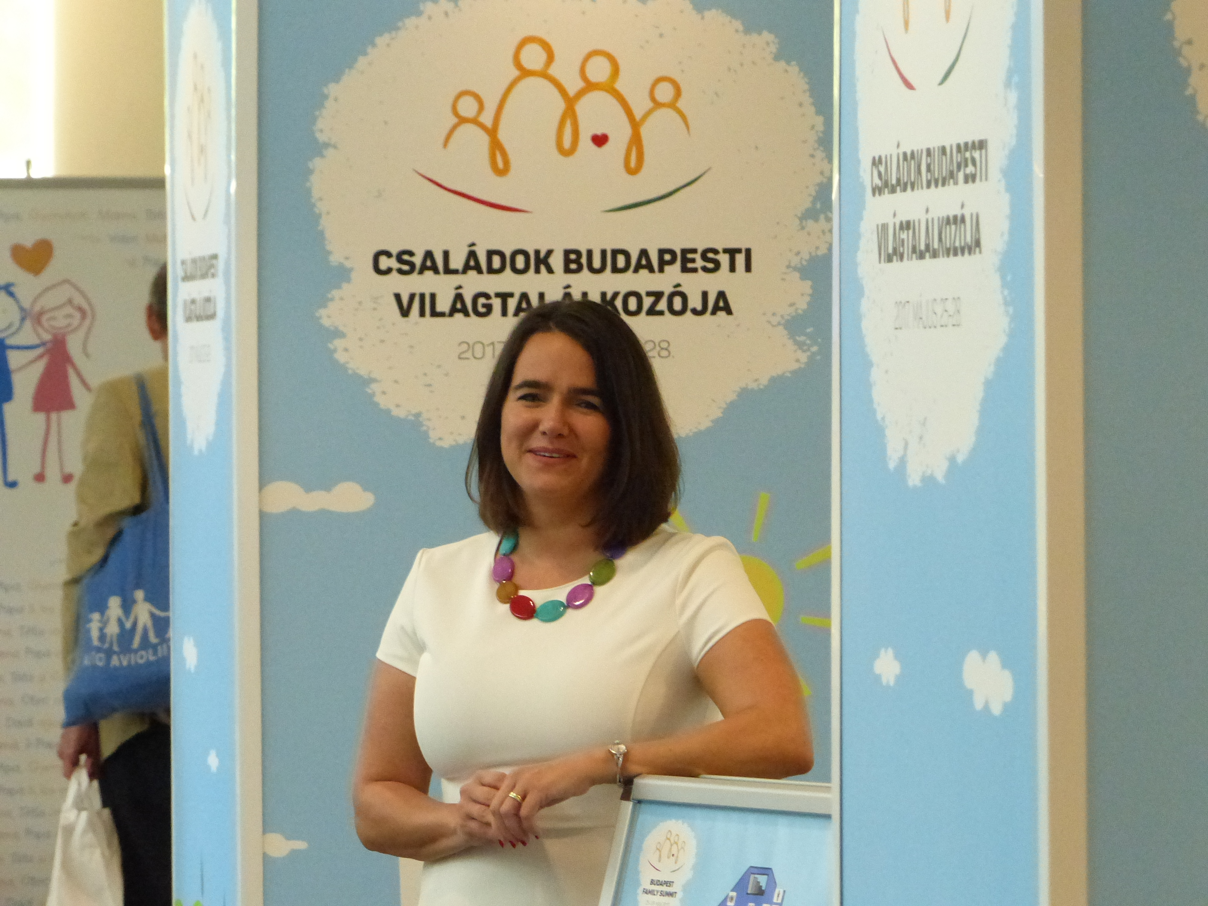 Novák Katalin. Minister of State for Family, Youth and International Affairs, Ministry of Human Capacities.